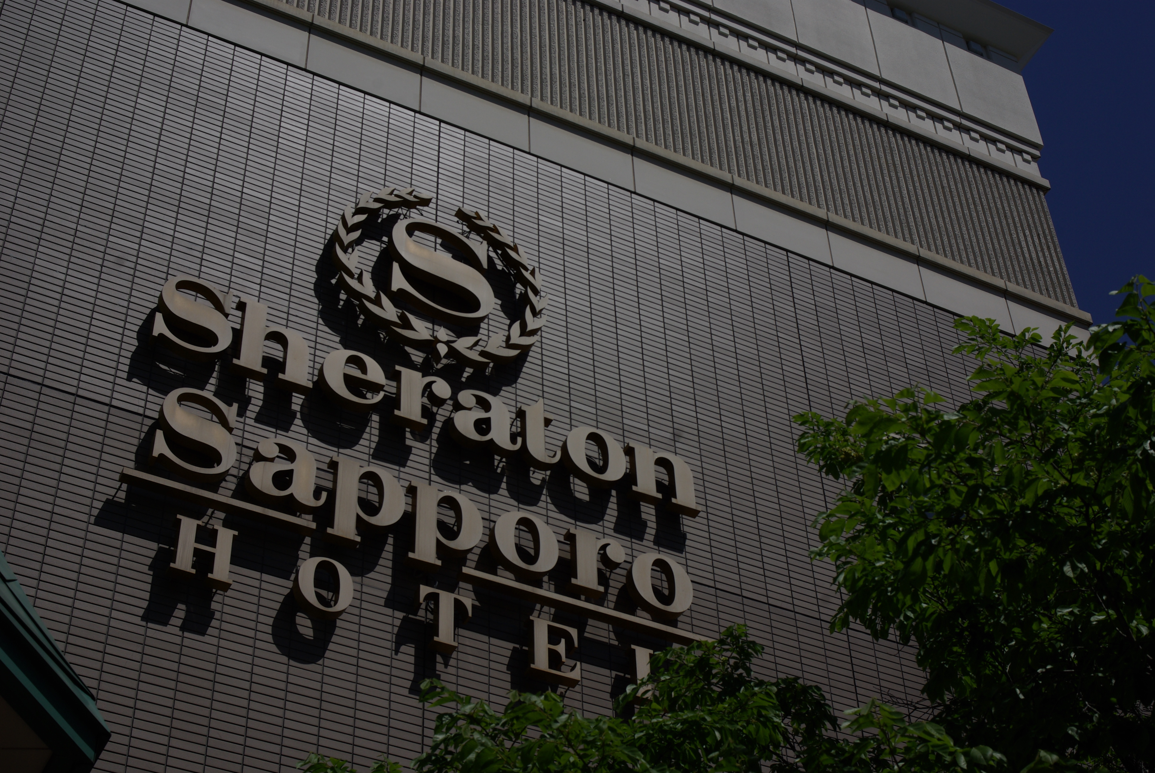 Sheraton Sapporo Hotel